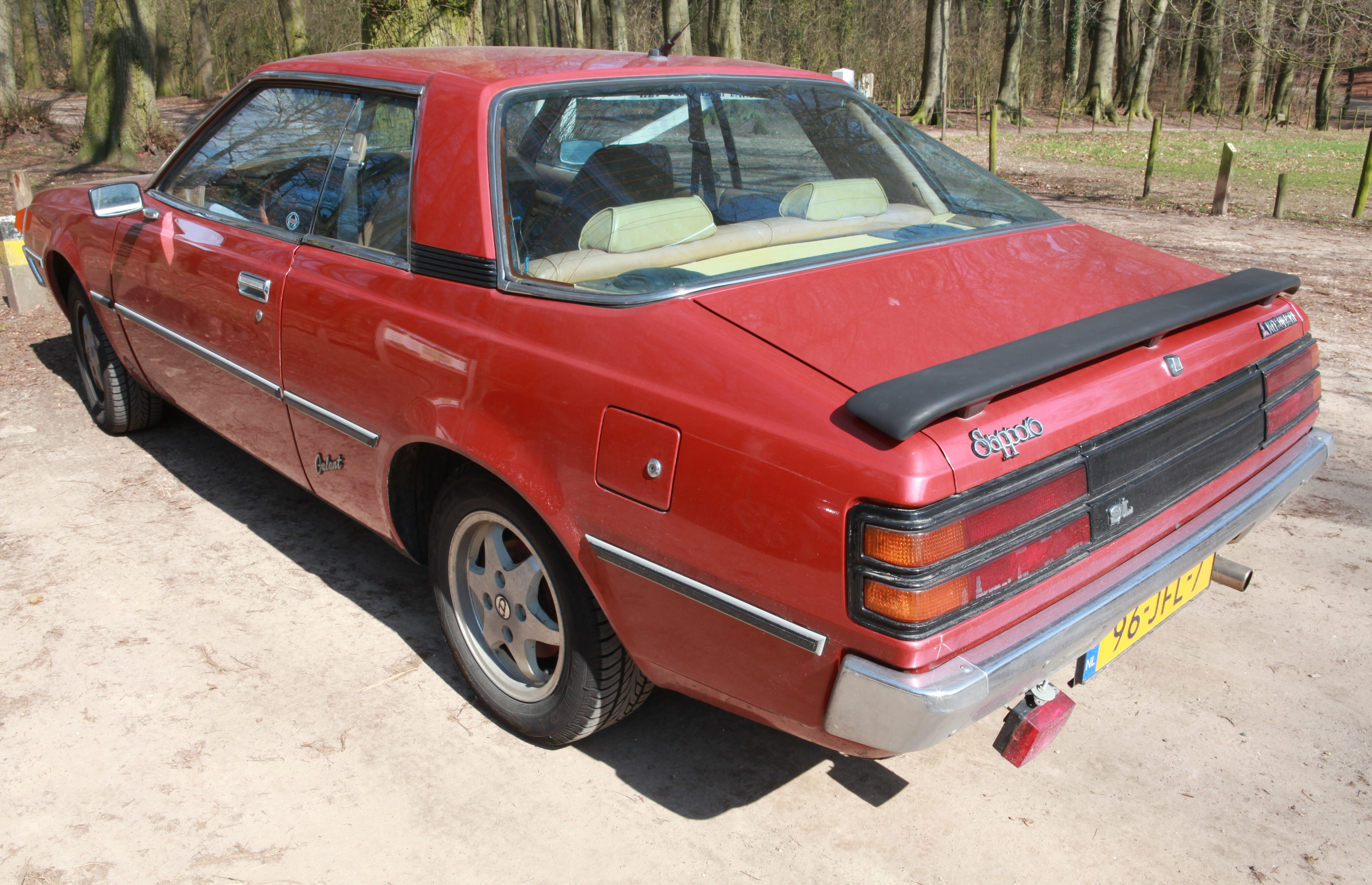 Mitsubishi Sapporo Type I 1978-1980